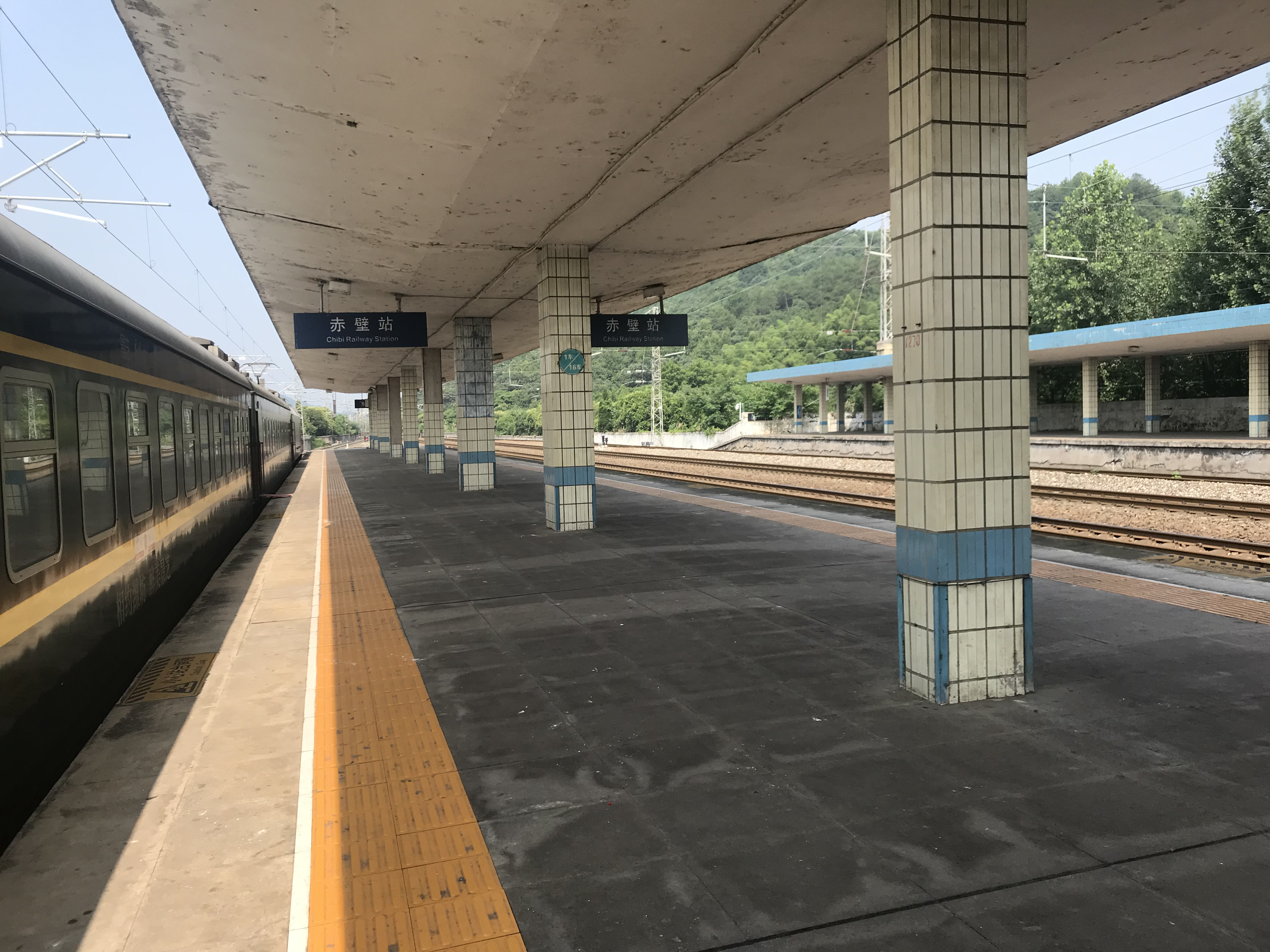 201906 Platform of Chibi Station